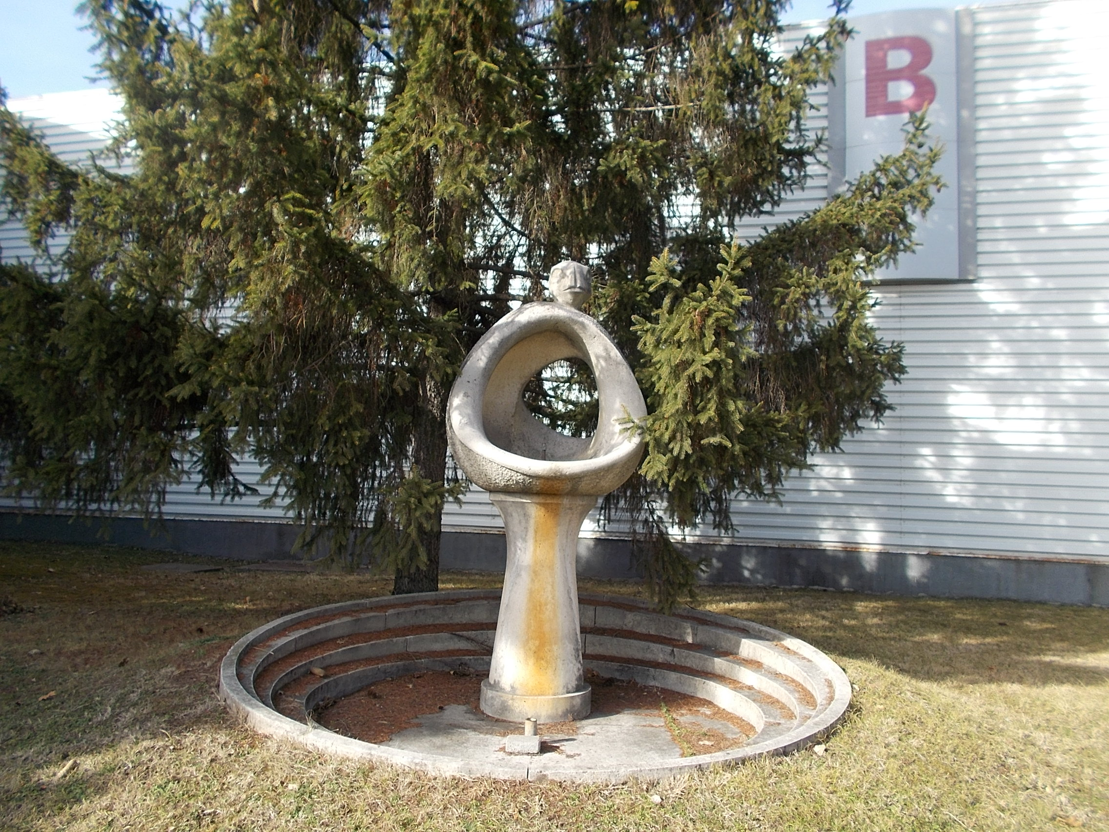 Water well by József Ilosfai at Hungexpo Hall B. - Ligettelek neighborhood, Budapest District X.